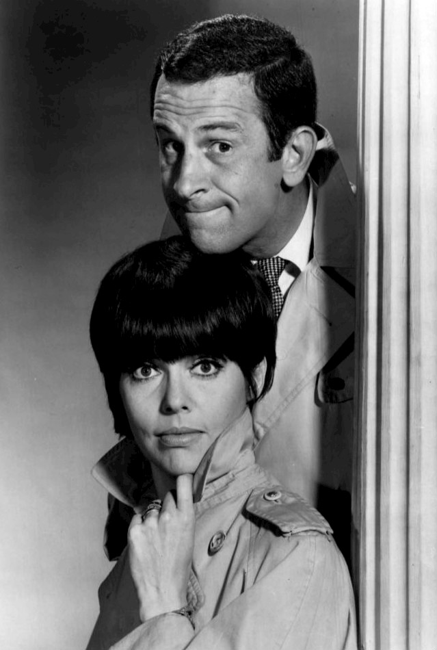 Publicity photo of Don Adams as Maxwell Smart and Barbara Feldon as Agent 99 from the television program Get Smart.